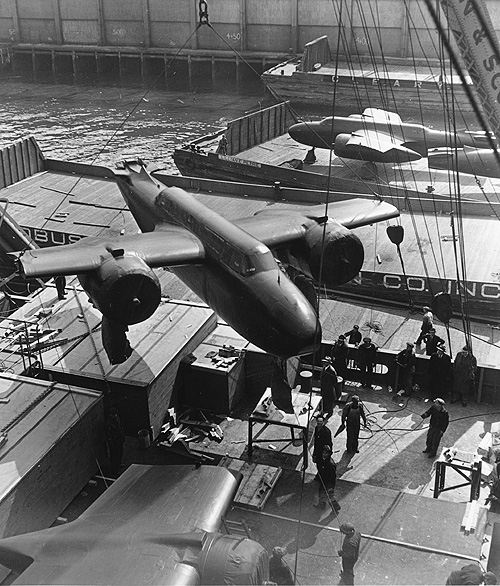 An American Douglas A-20 bomber, provided through Lend-Lease, is loaded on to a ship bound for Allied ports, ca. 1943.